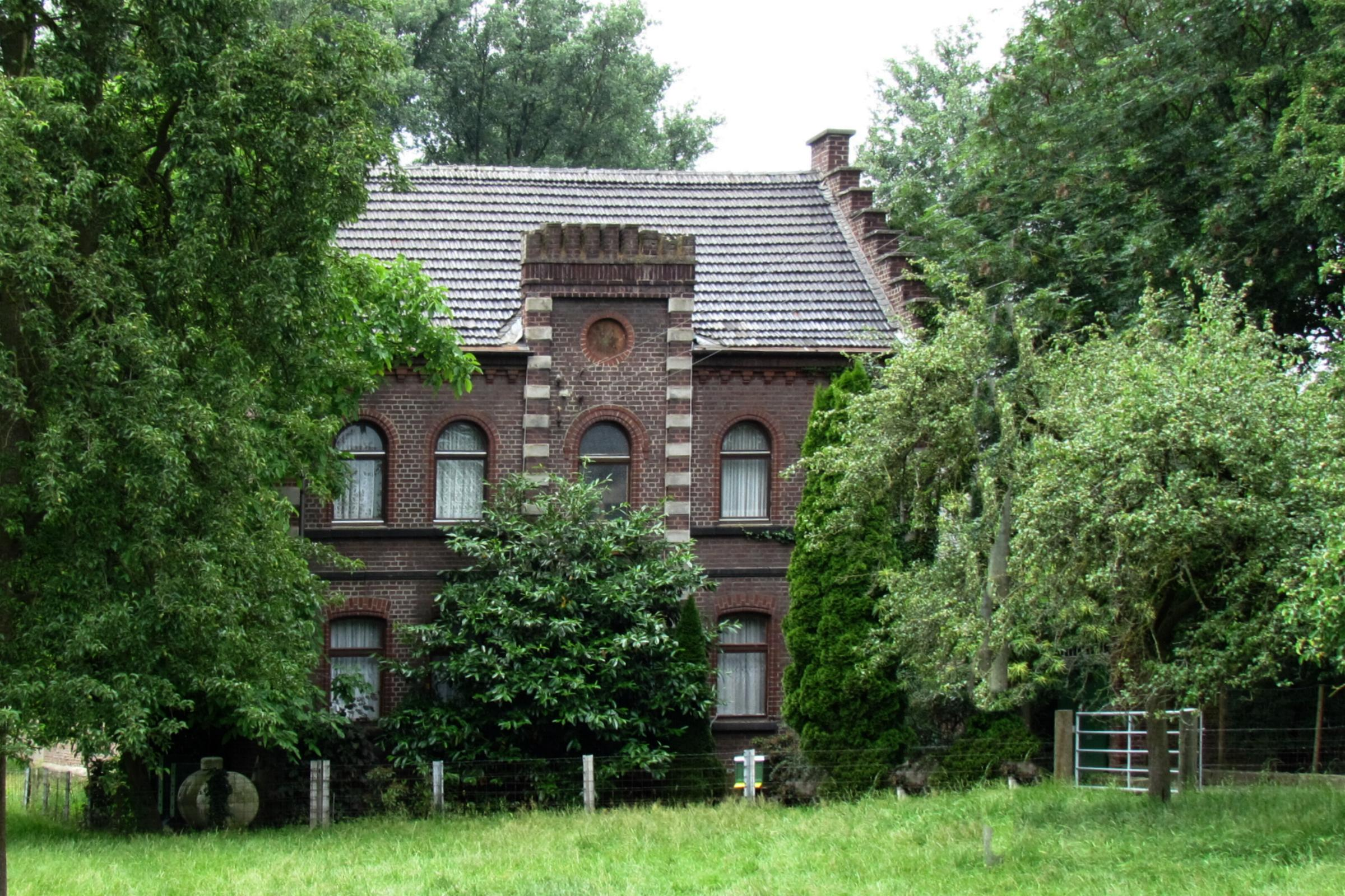 This is a photograph of an architectural monument.It is on the list of cultural monuments of Korschenbroich